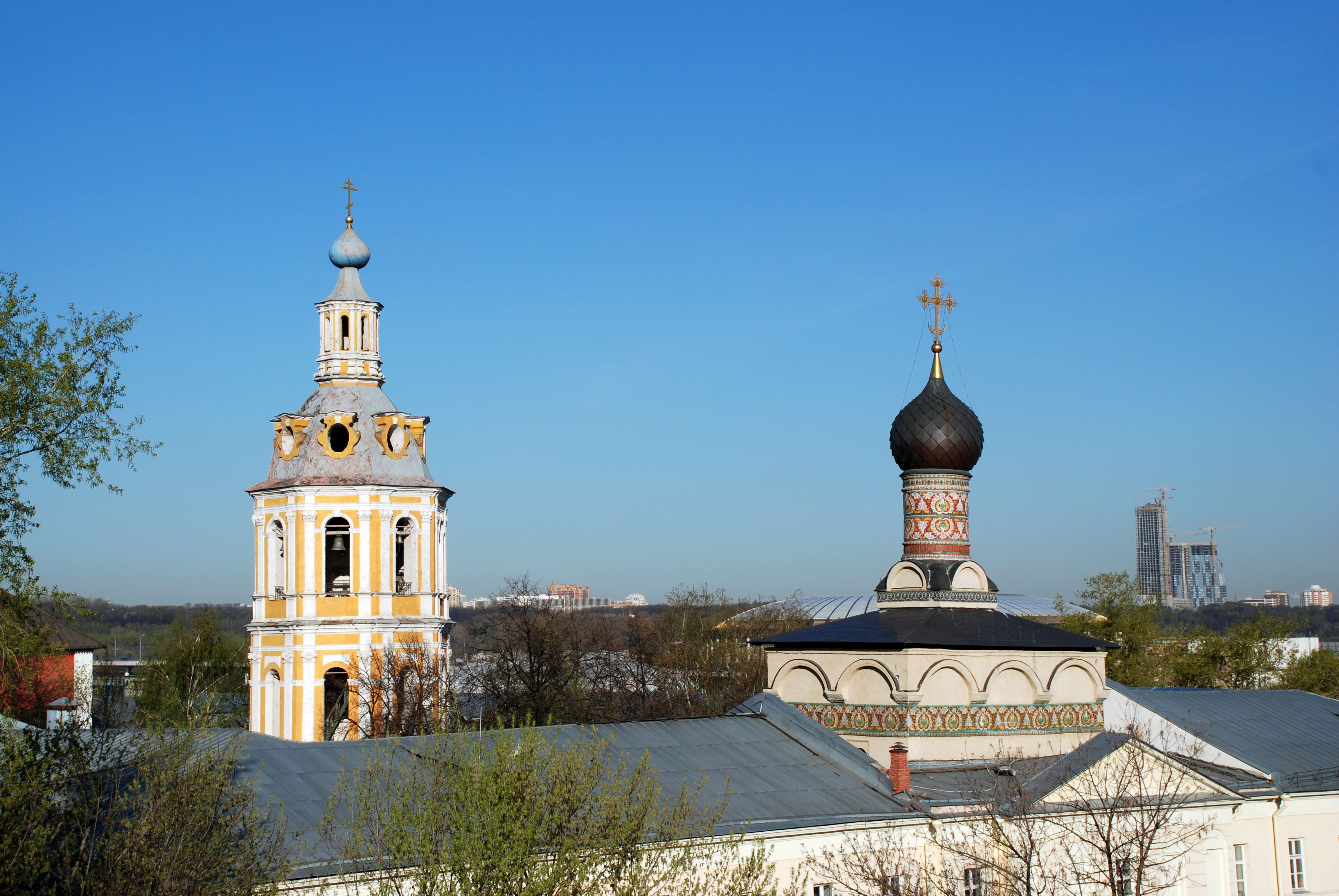 Andrew monastery in Moscow, Russia